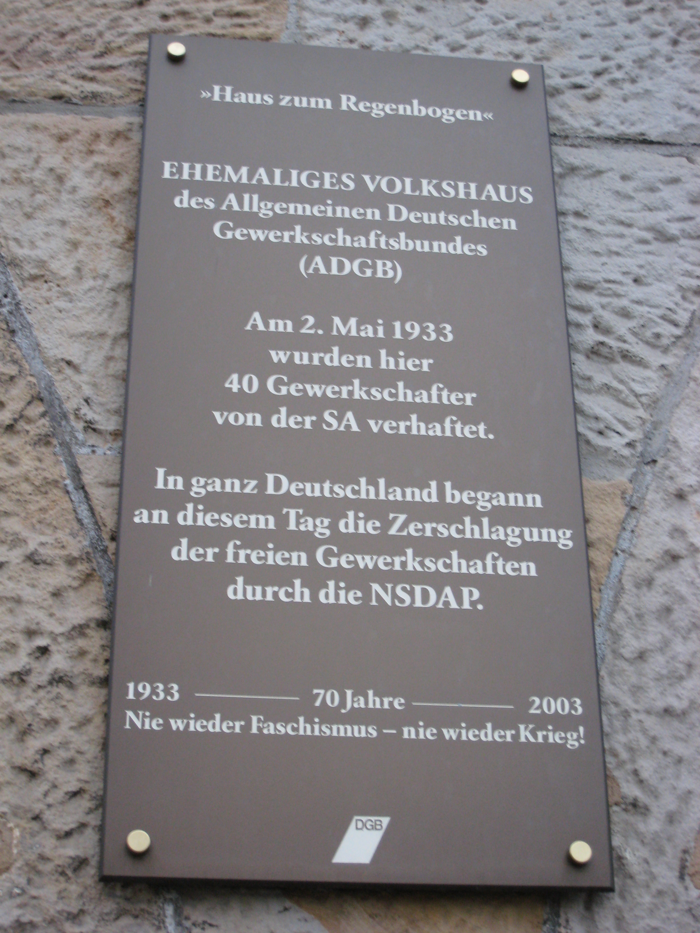 Memorial tablet Haus Zum Regenbogen, Erfurt, Johannesstrasse 55